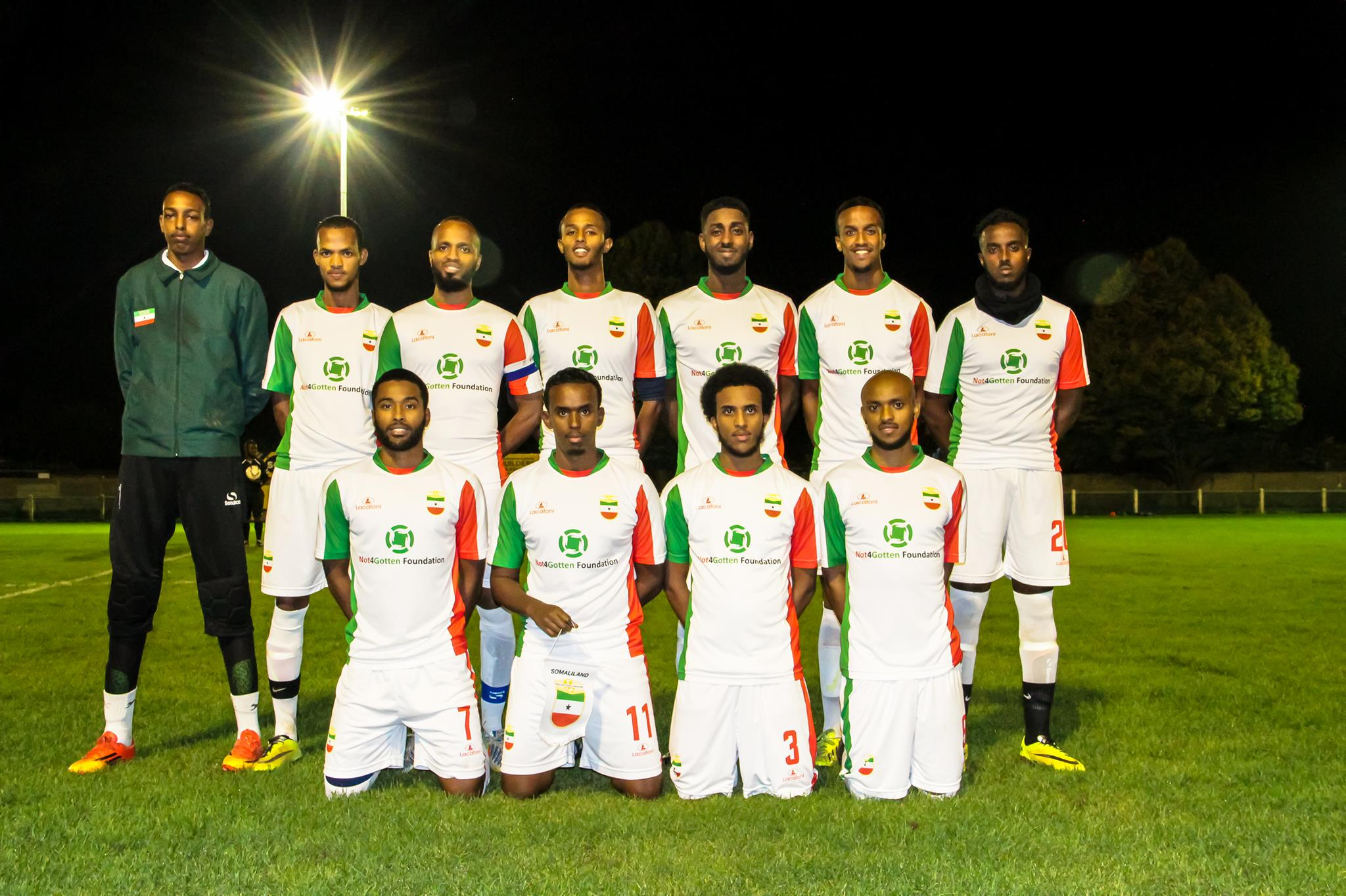 Somaliland National Football Team At A Recent Friendly Match In The United Kingdom